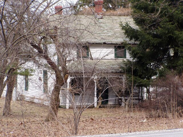 Charles Johnson Farm, Swedish District, Porter, Indiana